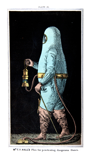 Published in the Proceedings of NEIMME and published with the permission of the Librarian, Jennifer Hillyard. An item from the collection of North of England Institute of Mining and Mechanical Engineers